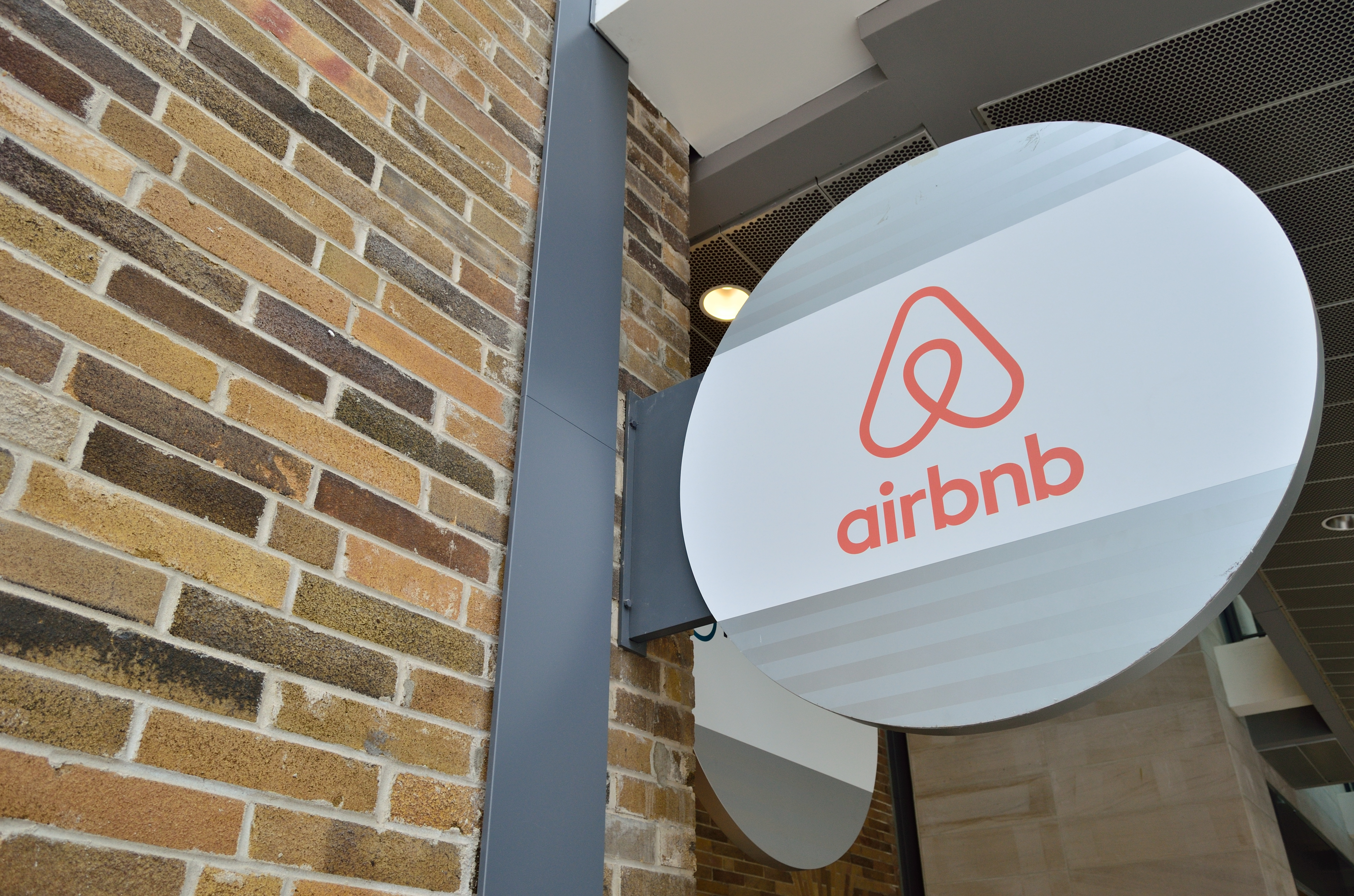 An Airbnb office in Toronto